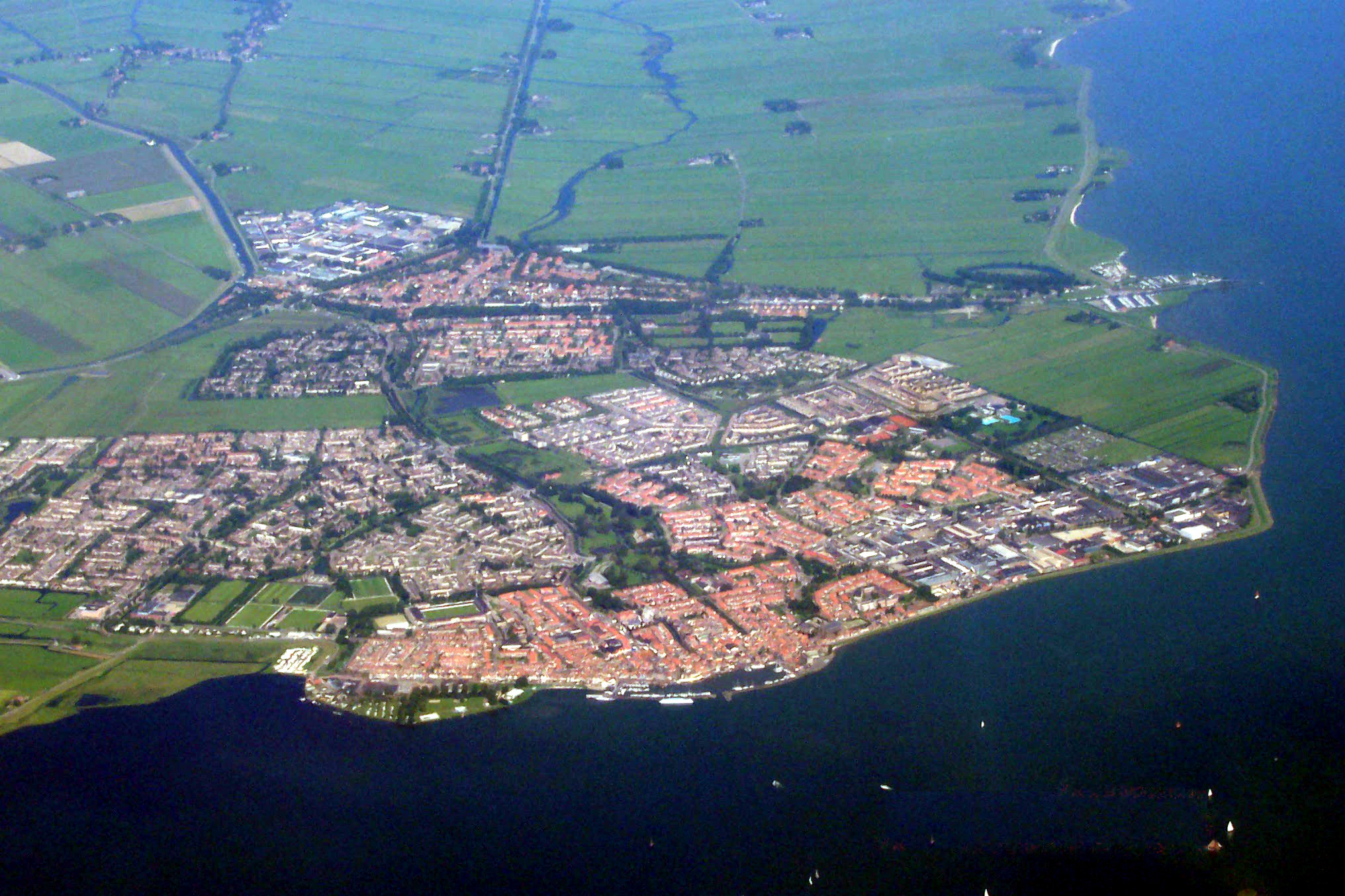 Volendam (in front) and Edam (at the back), the Netherlands.